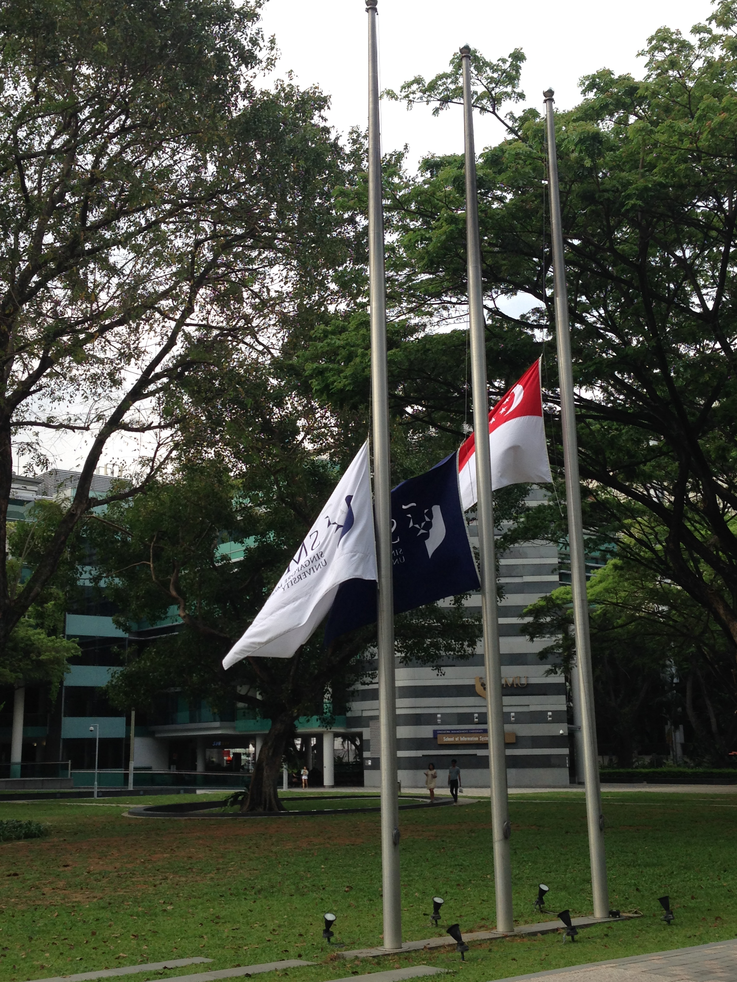 The National Flag of Singapore and flags of the Singapore Management University flying at half staff at the College Green to mark the death of Singapore's first Prime Minister, Lee Kuan Yew.